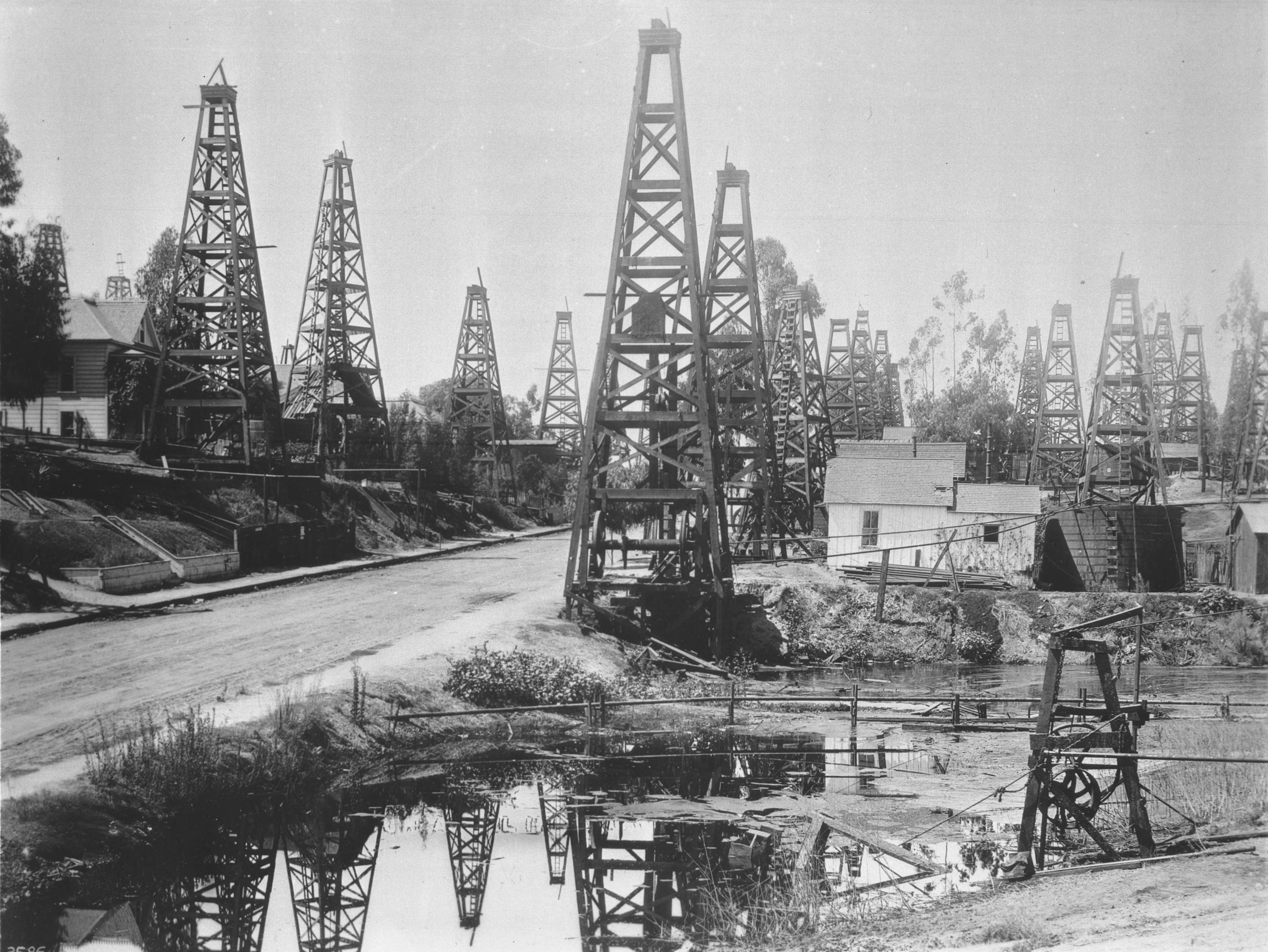 Photograph of the first oil district in Los Angeles, Toluca Street, ca.1895-1901. The oil field is closely packed with about 20 derricks which reflect in the standing water or oil on the ground in the foreground. Each derrick has a small building at its base. Oil pipes traverse the general area.